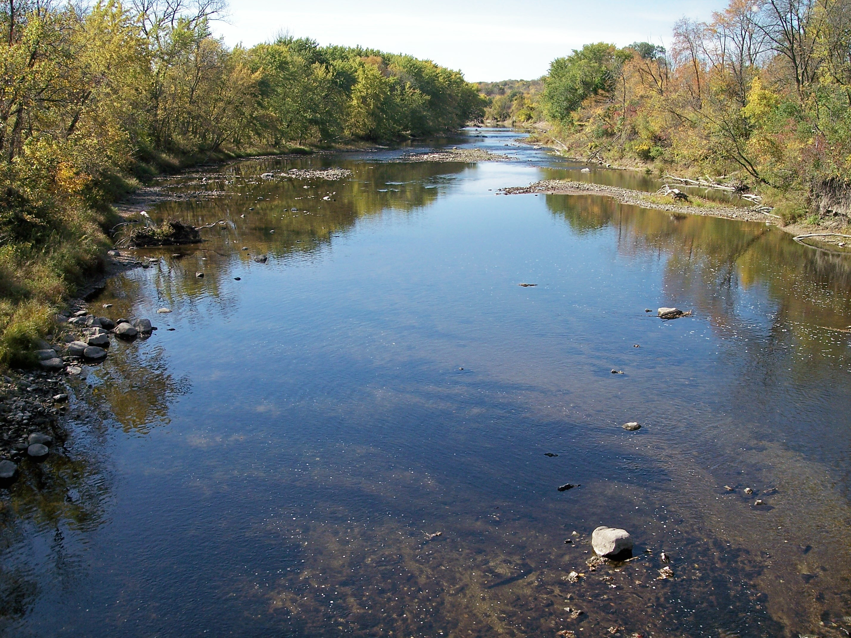 The Boone River in Hamilton County, Iowa, south of Webster City, Iowa, looking downstream from a bridge near Albrights canoe access